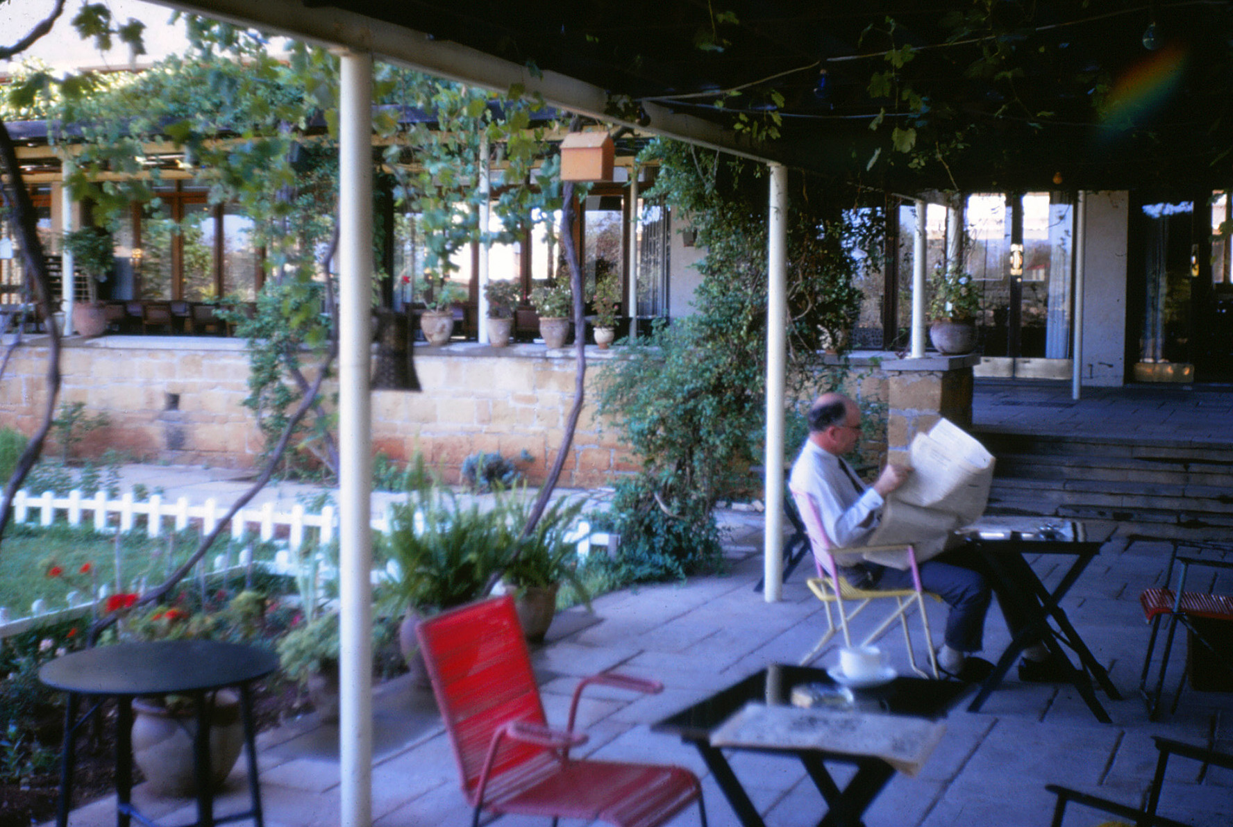 Inside the Dhekelia officers' mess, 1968/9